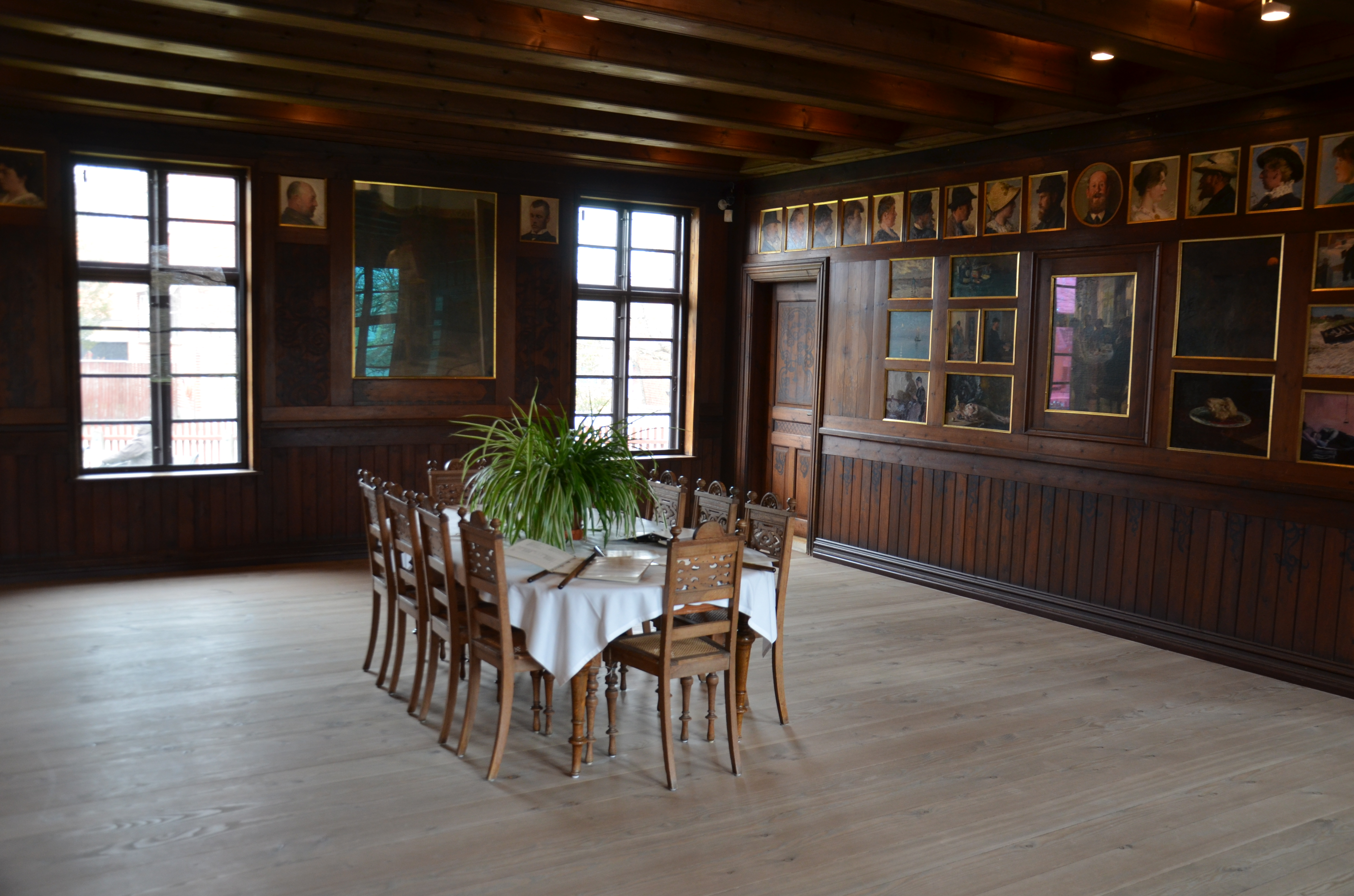 Matsalen från Bröndums hotell, Skagens Museum